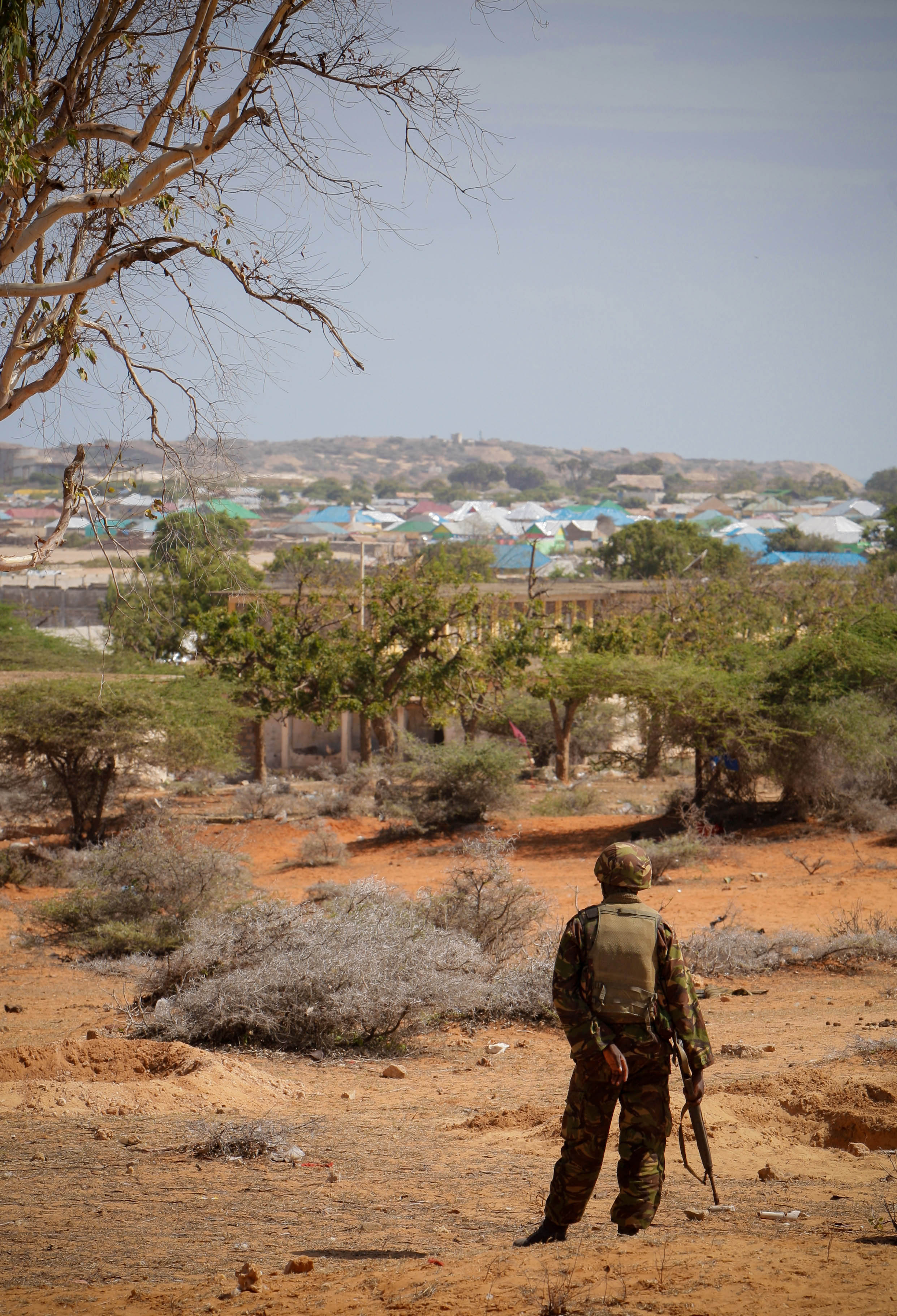 A soldier serving with the Kenyan Contingent of the African Union Mission in Somalia (AMISOM) looks out of the southern Somali port city of Kismayo, during a security sweep of a former police station by a team of AMISOM engineers for improvised explosive devices (IEDs) 03 October 2012. The Al-Qaeda-affiliated extremist group Al Shabaab withdrew from the city on 02 October after AMISOM troops, Somali National Army (SNA) forces and the pro-government Ras Kimboni Brigade entered and captured Kismayo without a fight. During their security sweep, AMISOM engineers found one device planted in the perimeter wall next to the entrance, which was destroyed by a controlled explosion. AU-UN IST PHOTO / STUART PRICE.